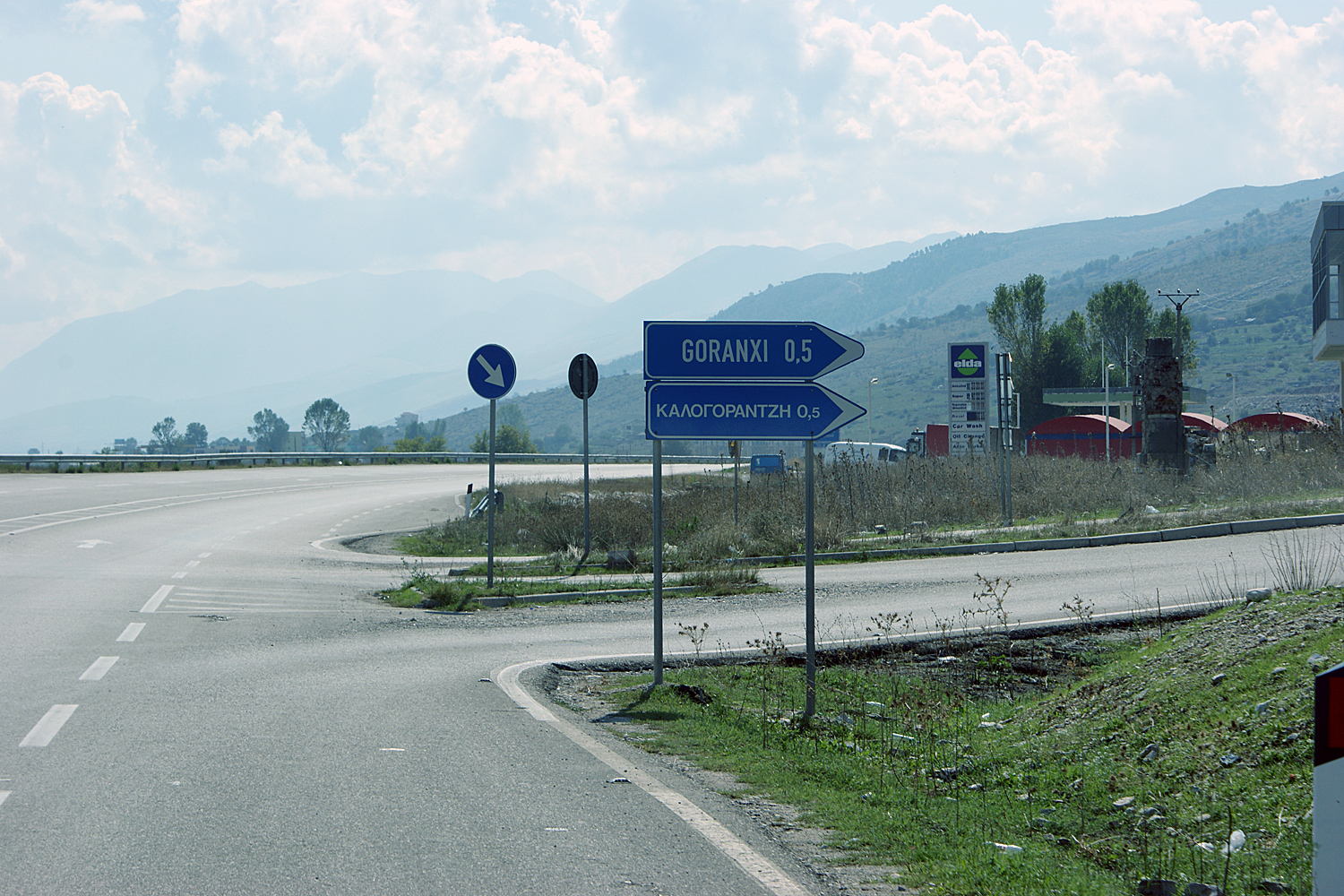 Road Sign for the Village of Goranxi in Albanian and Greek – Southern Albania, Gjirokastra district